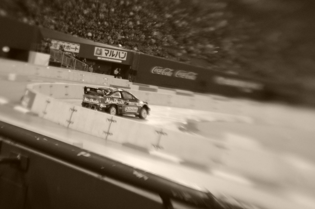 Mikko Hirvonen driving his Ford Focus RS WRC 08 at a Sapporo Dome super special stage of the 2008 Rally Japan.